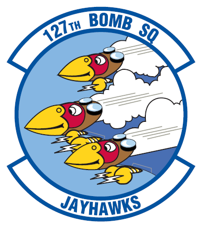 127th Bomb Squadron logo.